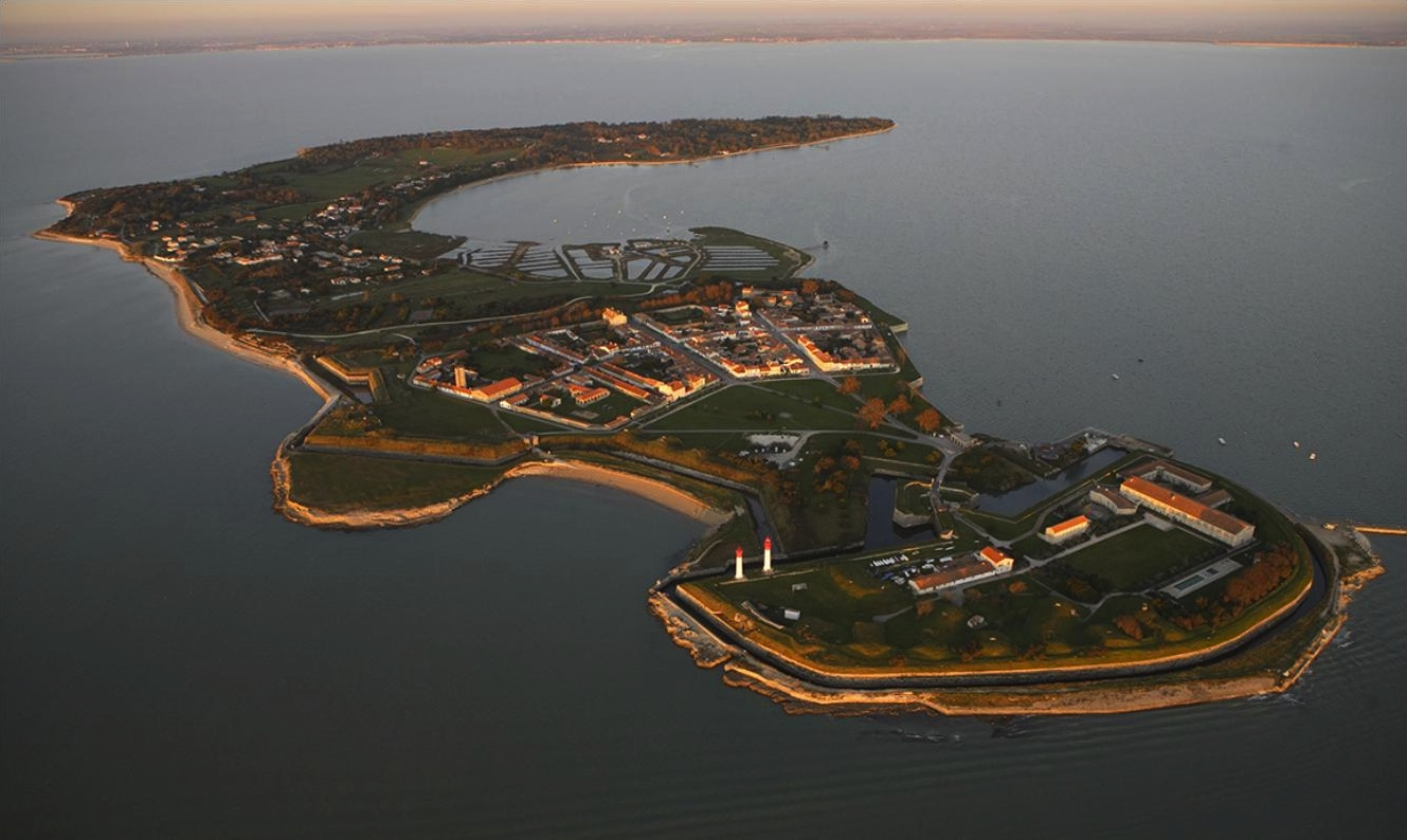 The Island of Aix seen from the air from the south-west at dusk. Aix is located at the mouth of the Charente River on the west coast of France.